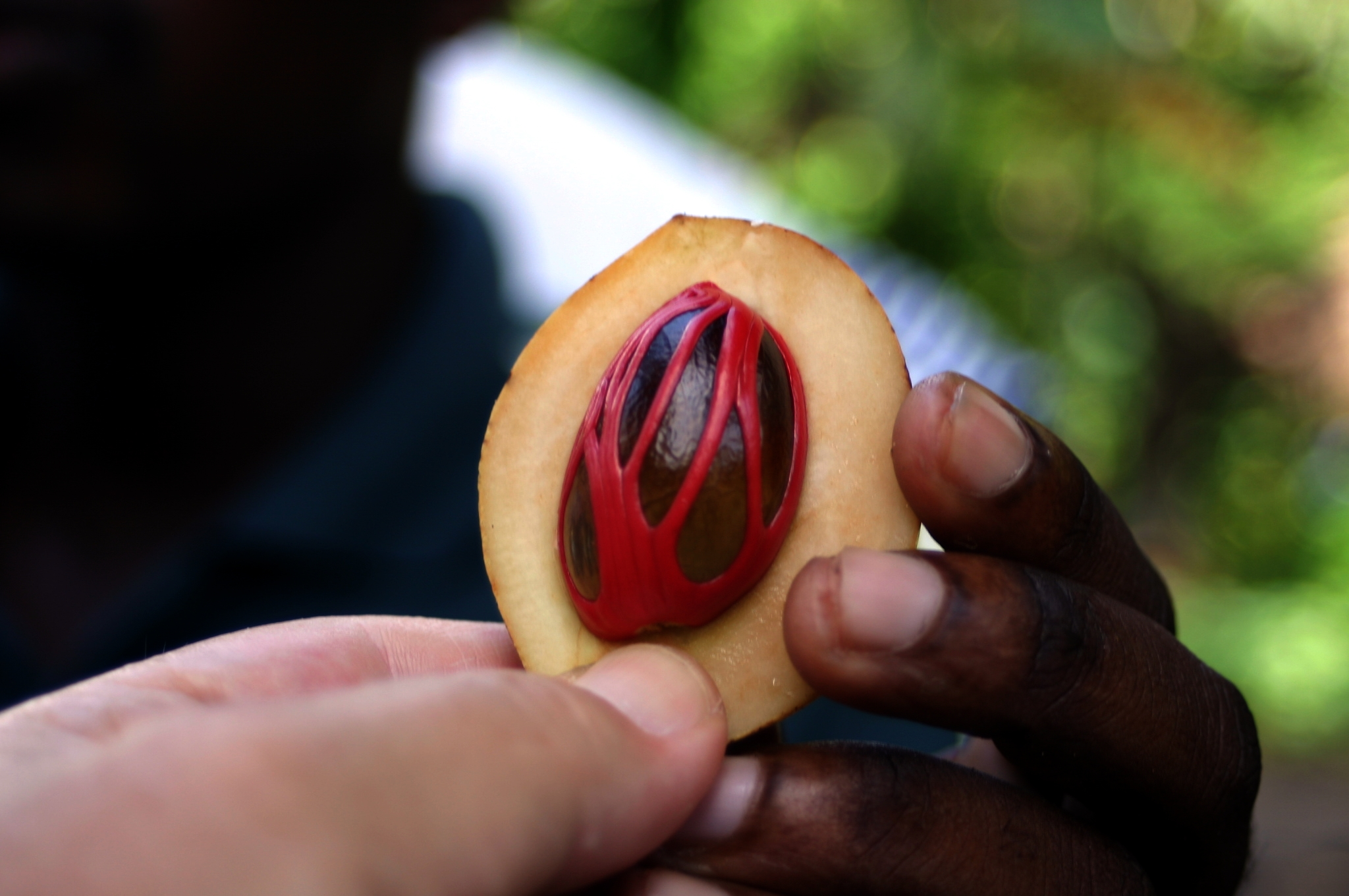 Myristica fragrans Nutmeg. The picture was taken in Zanzibar.